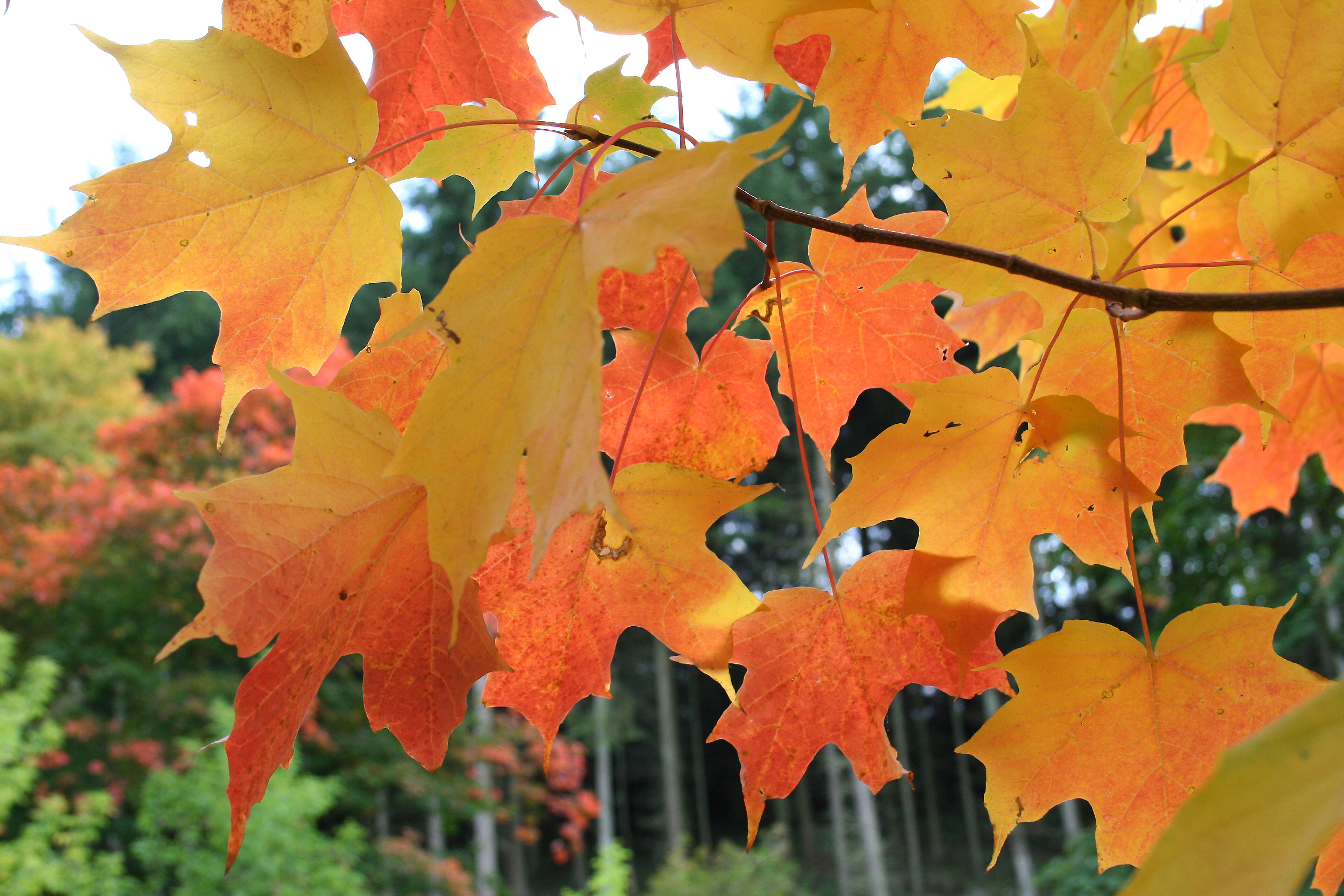 Sugar Maple - Acer saccharum leaves in autumn Planting date : 1999 Precise location : Arboretum Robert Lenoir (S29 - 2959) - Rendeux (Belgium). Walon: Fouyes di Plane a suke - Acer saccharum è l’arière saîson Annéye do plantis' : 1999 Place rècta : Arboretum Robert Lenoir (S29 - 2959) - Rindeu (Bèljike).